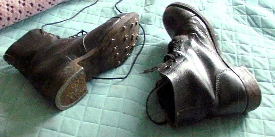 I took this photograph. A pair of hobnailed boots.